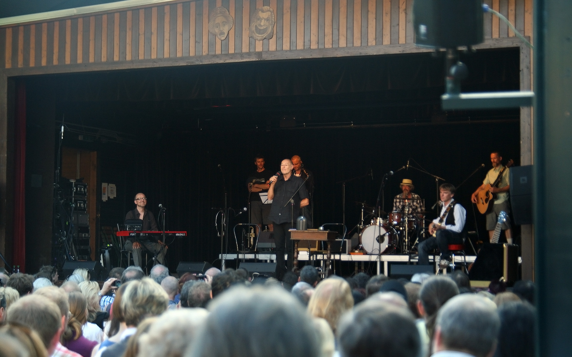 200th and last broadcast of Willi Resetarits' radio show Trost und Rat. Tschauner-Bühne in Vienna.